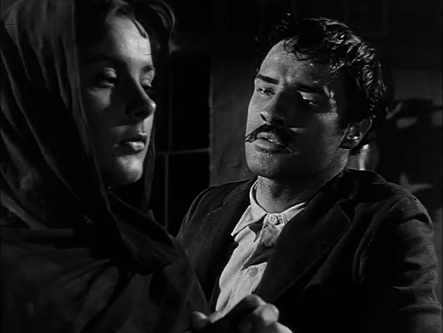 Trailer screenshot of the film Viva Zapata! (1952)